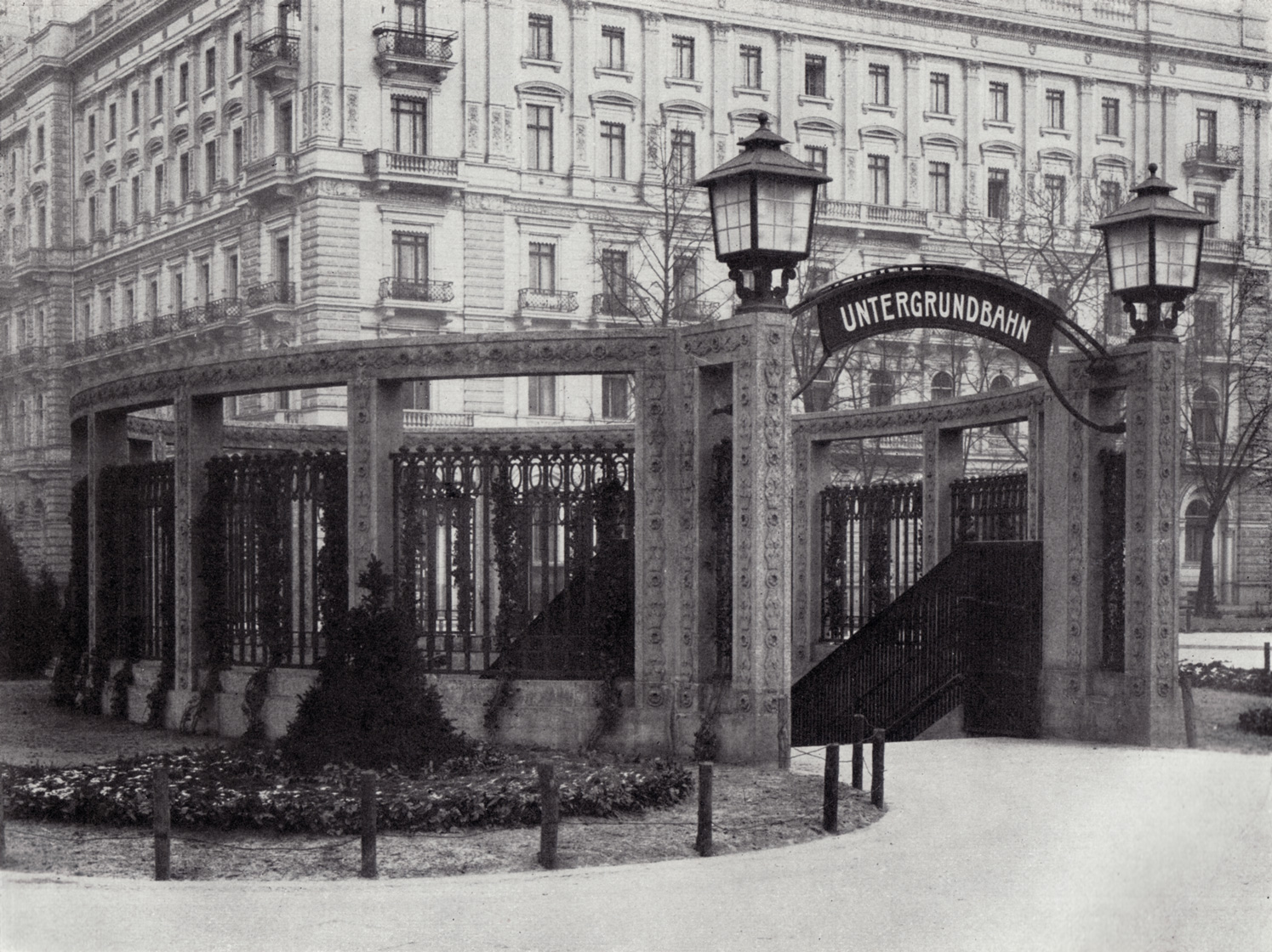 Western Entrance to the Berlin U-Bahn station Kaiserhof (today Mohrenstraße), line U2